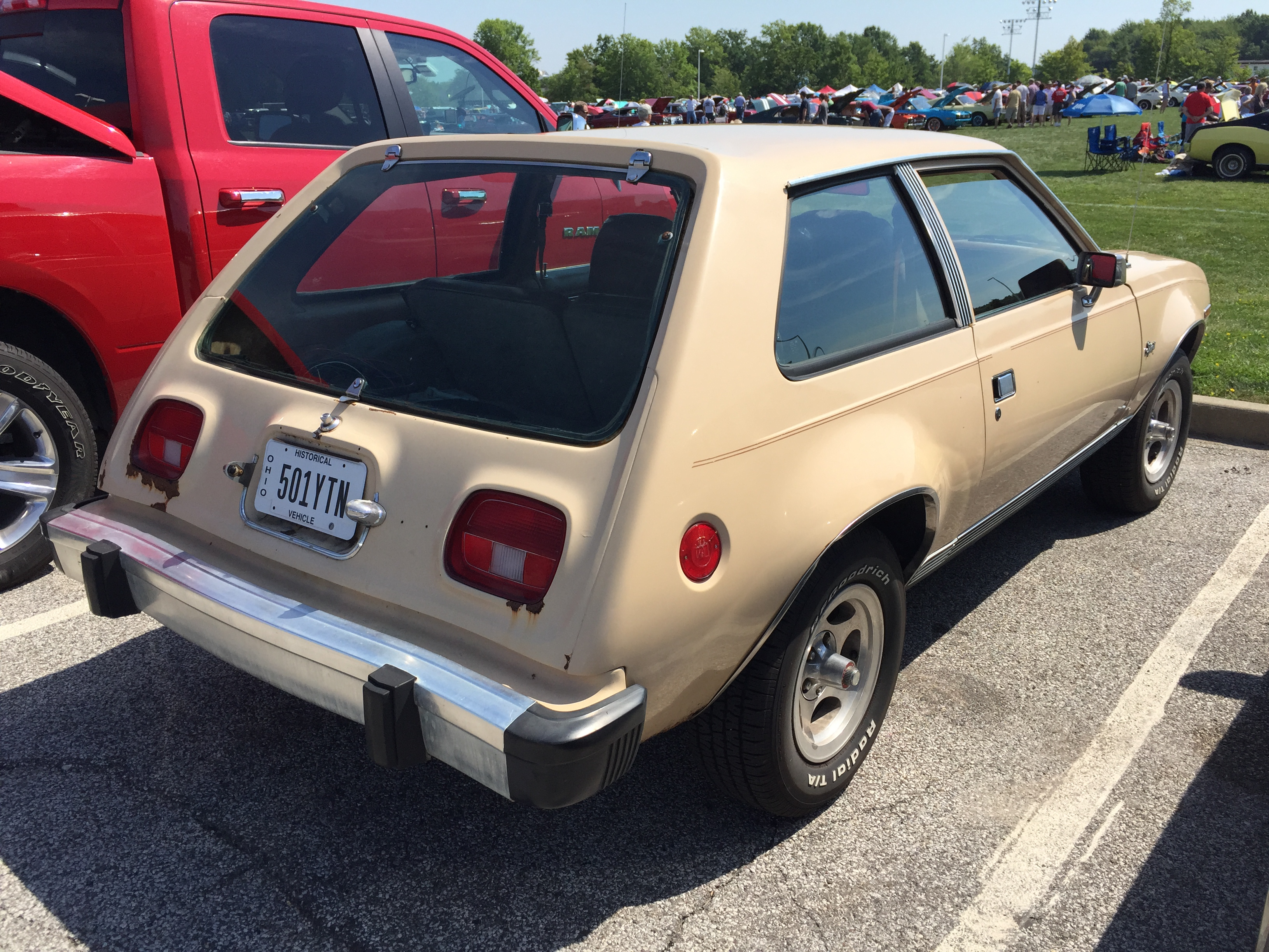 1981 AMC Spirit DL sedan, a subcompact built by the American Motors Corporation. The DL model has the standard reclining bucket seats in "sport" vinyl upholstery, wood accents, and fluorescent-display digital clock. Picture taken at the American Motors Owners Association (AMO) annual convention that was held July 2015 near Cleveland, Ohio.